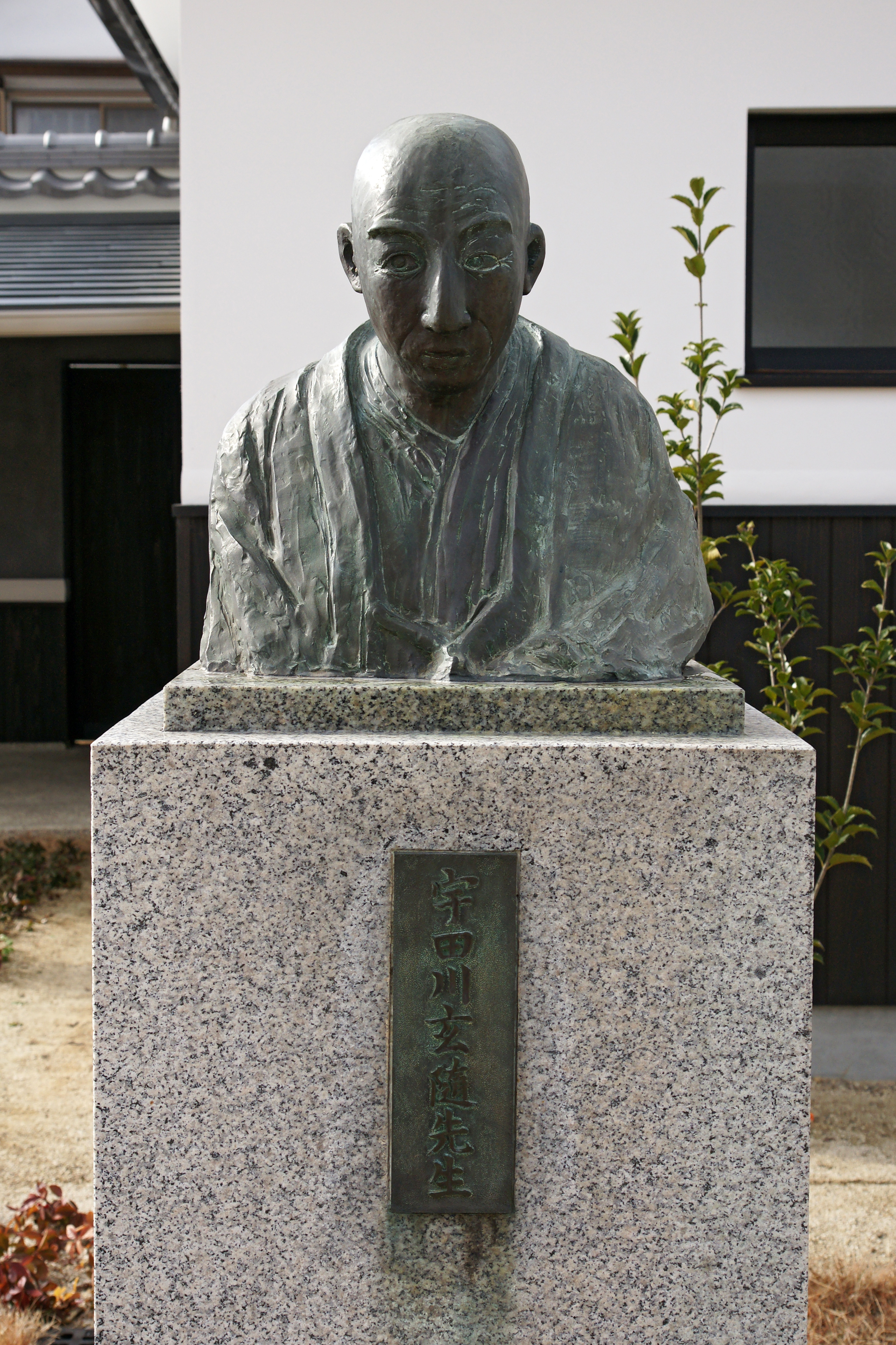 Tsuyama Archives of Western Learning in Tsuyama, Okayama prefecture, Japan.